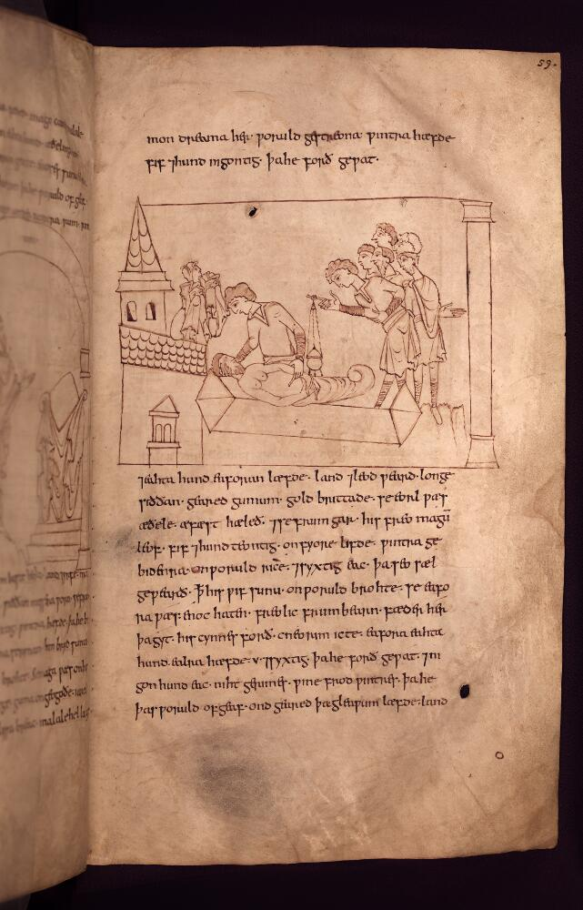 'The Cædmon Manuscript': parts of Genesis, Exodus and Daniel in Old English verse, illustrated with Anglo-Saxon drawings, c. A.D. 1000.; 59